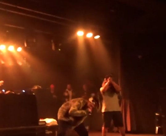 $uicideboy$ performing in Melbourne, Australia in May 2017.